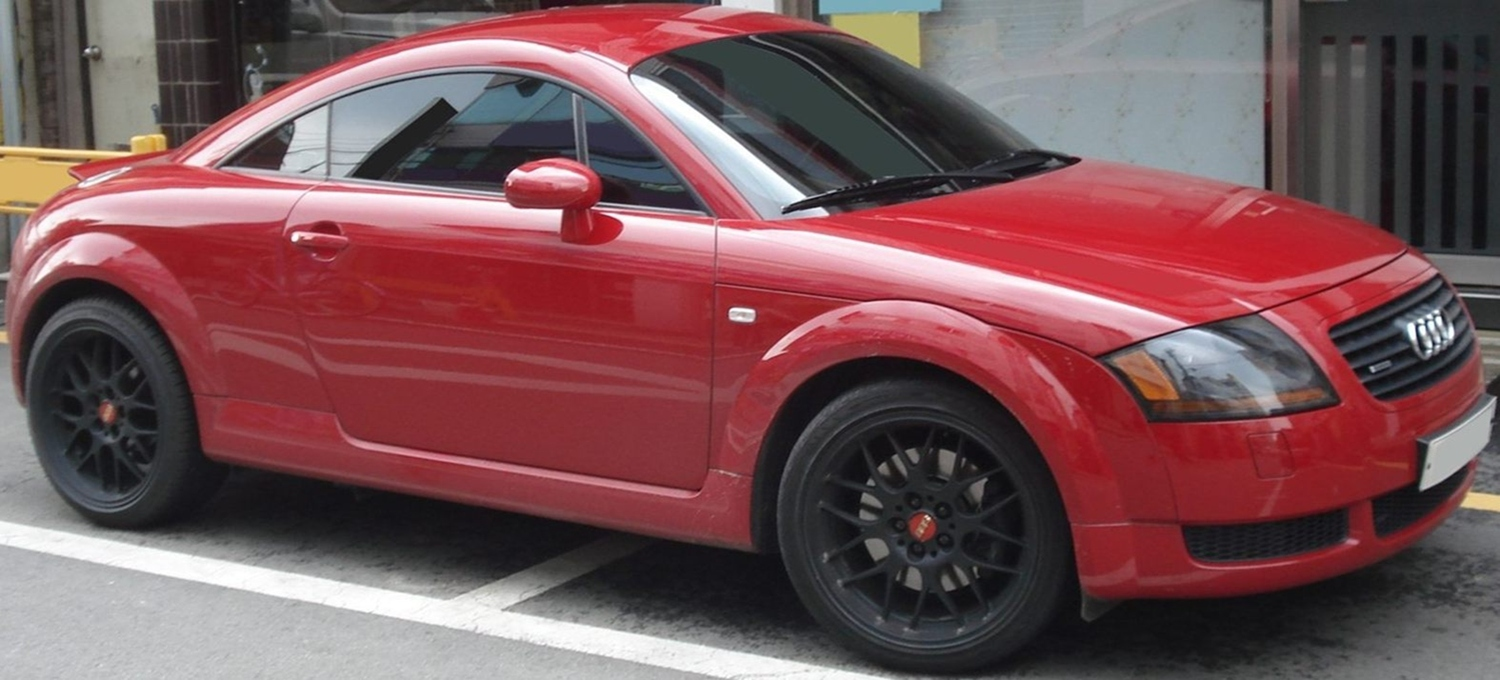 Audi TT